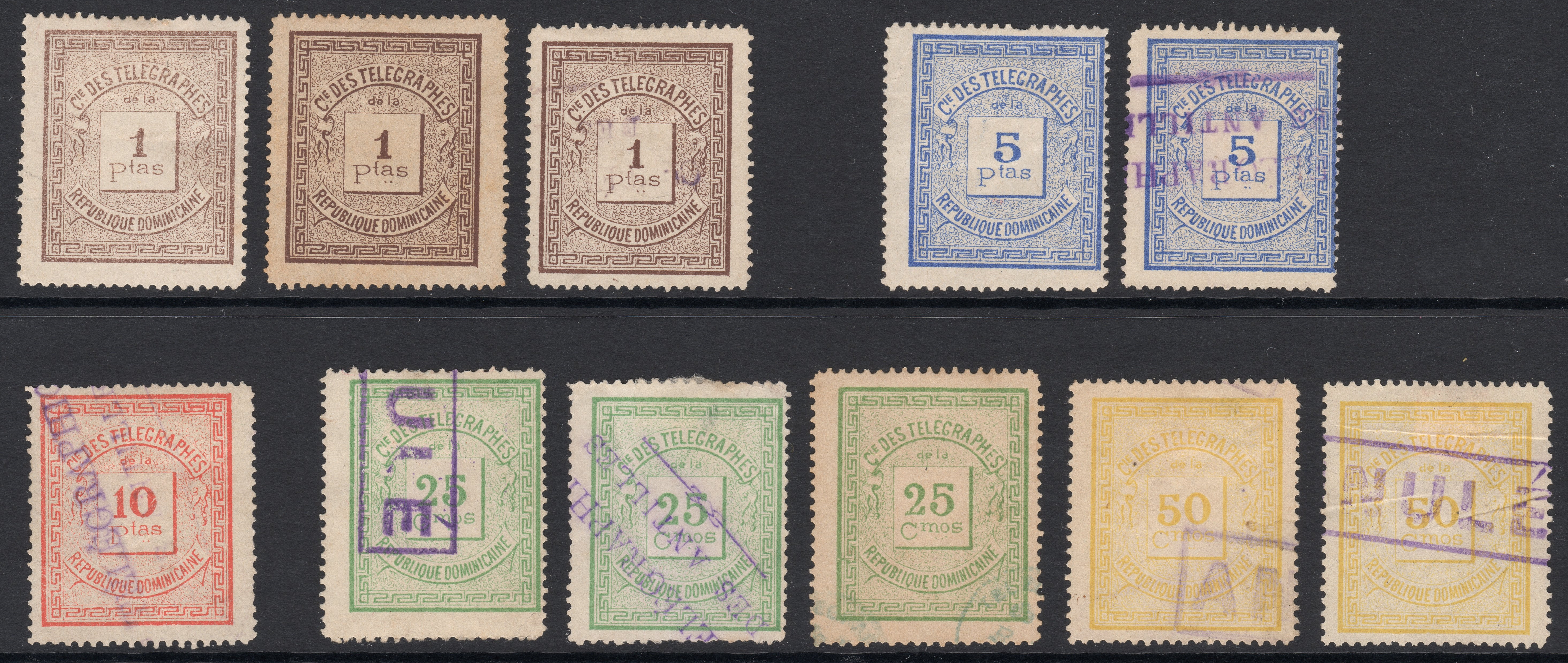 Telegraph stamps of the Dominican Republic 1887.